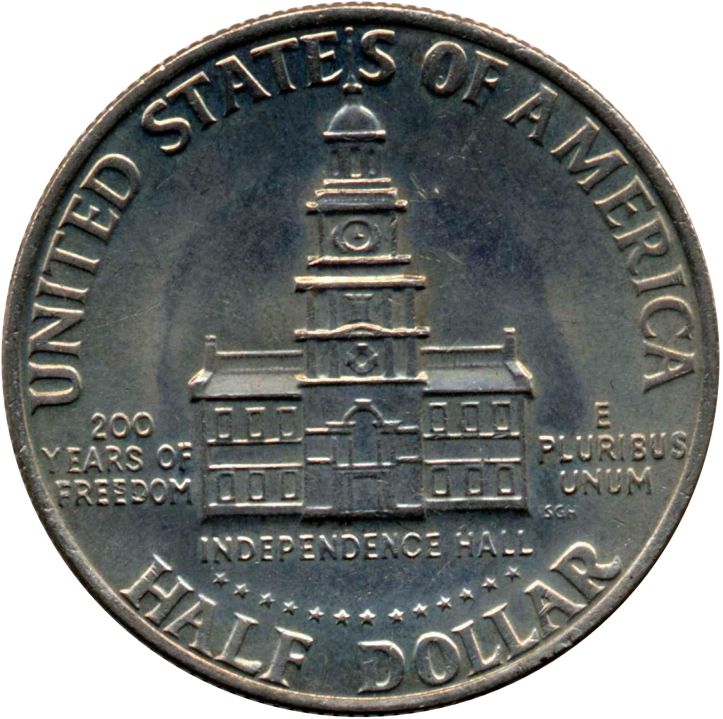 Reverse of a 1976 Kennedy half dollar